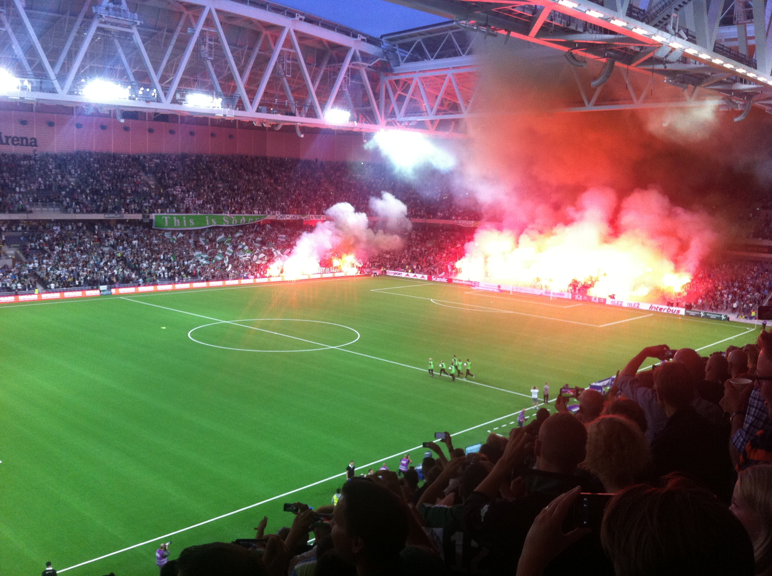 Crowd in the home supporters' section lighting flares during Stockholm-based Hammarby IF's premier match in newly built Tele2 Arena, a 0–0 draw against Örgryte IS on 20 July 2013.